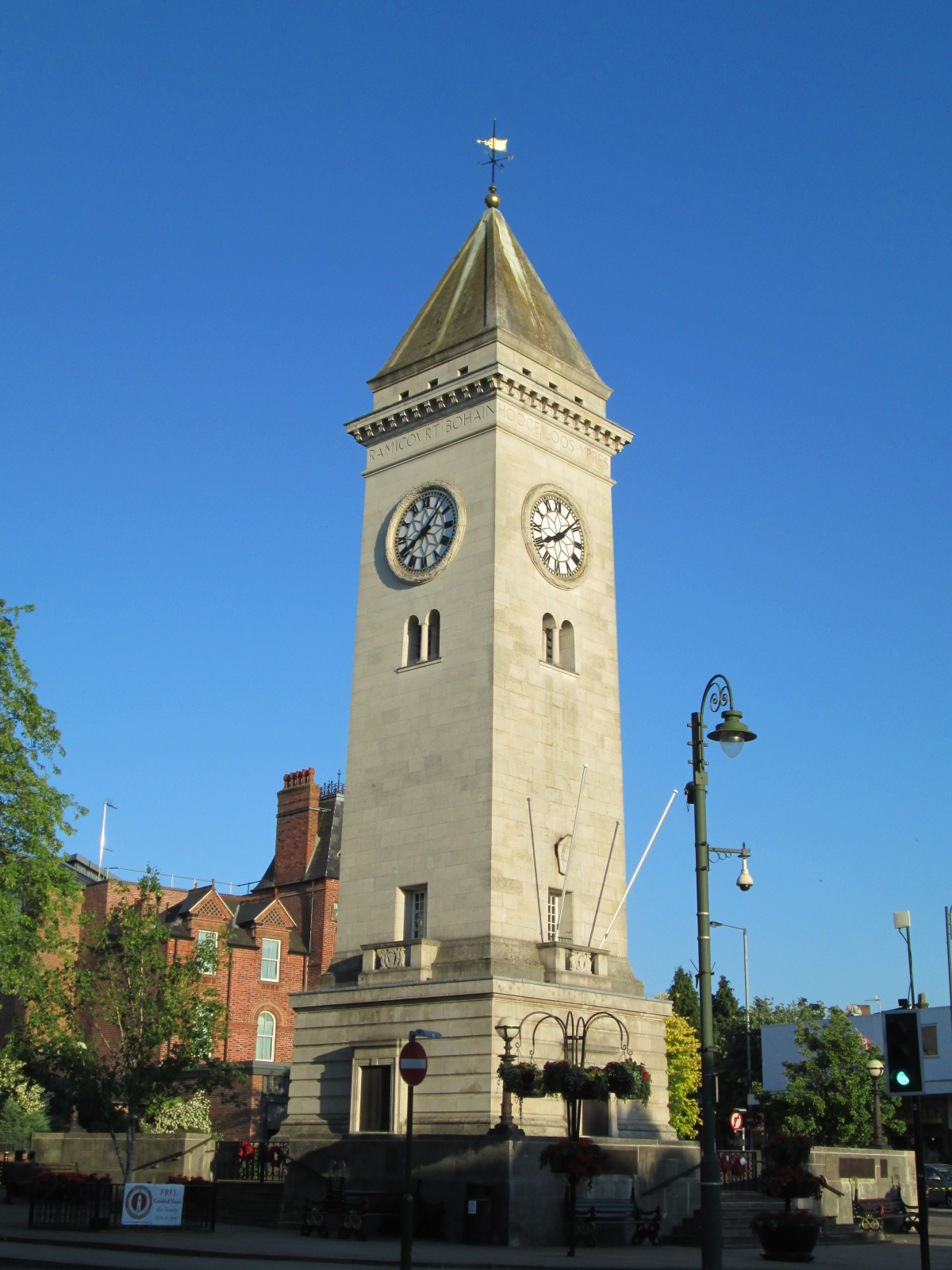 The Nicholson War Memorial in Leek, Staffordshire. Seen from Ball Haye Street.